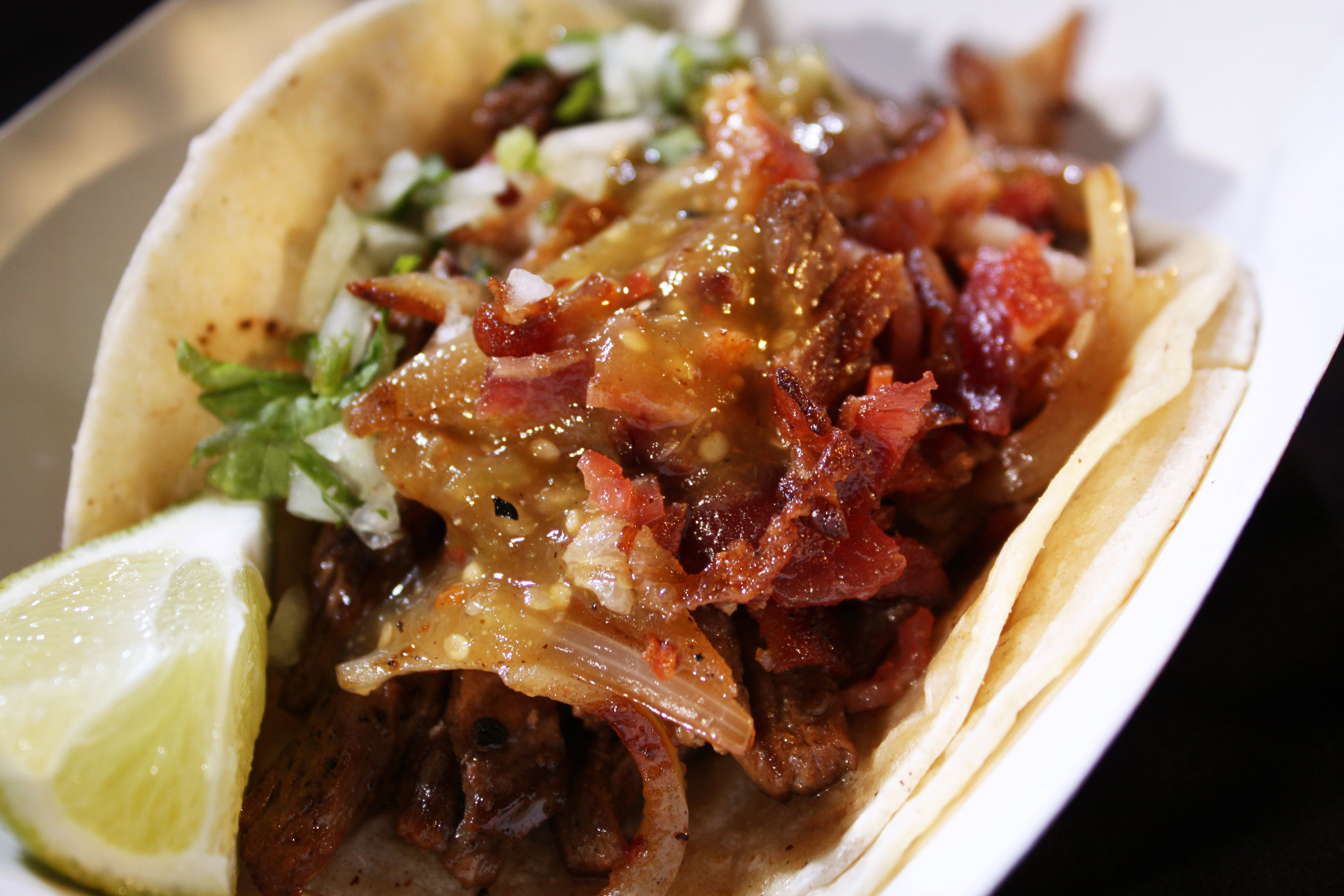 Don Chow Tacos Ultimate LA Taco